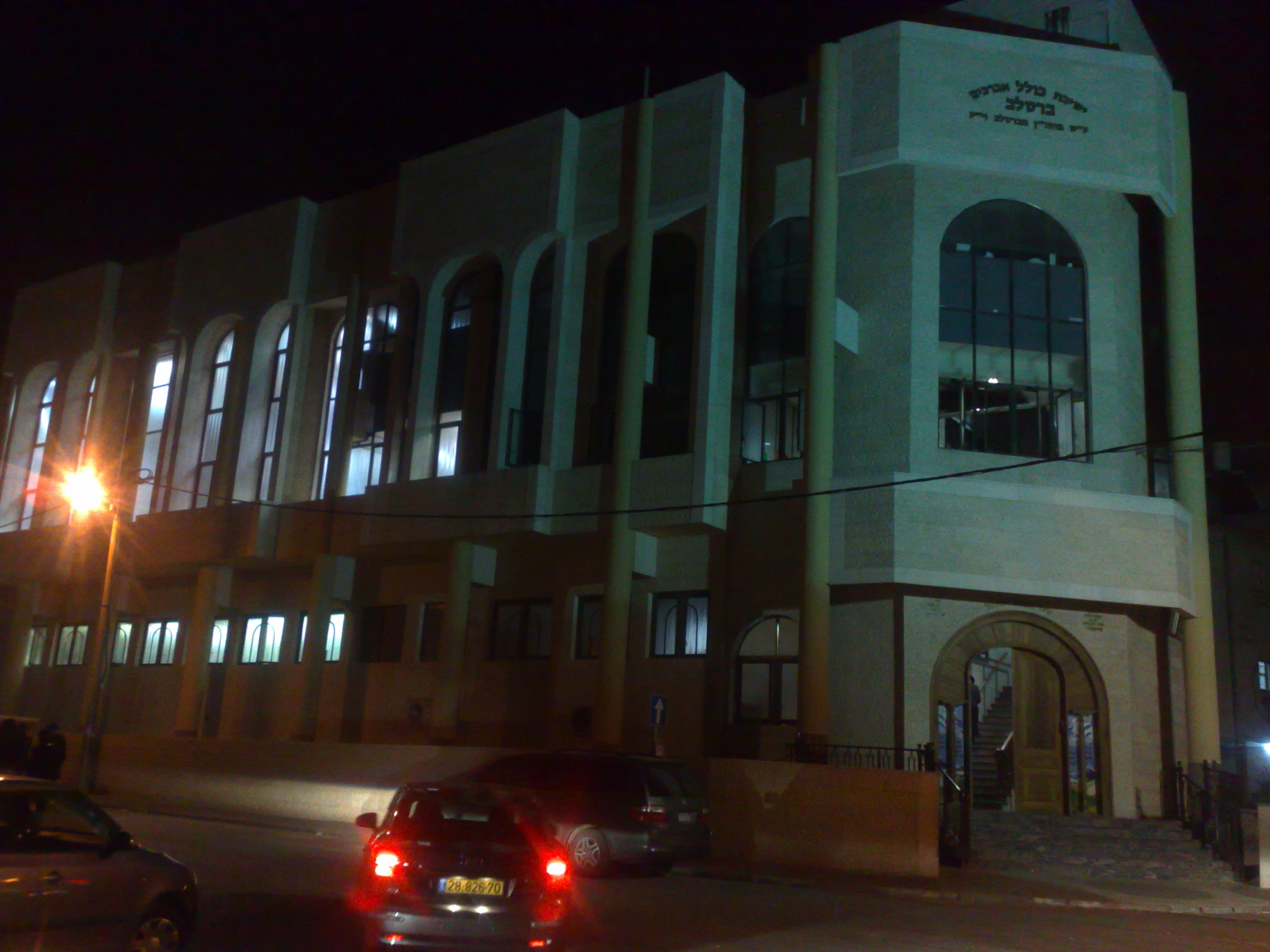 The Central Breslov center in Beni Brak